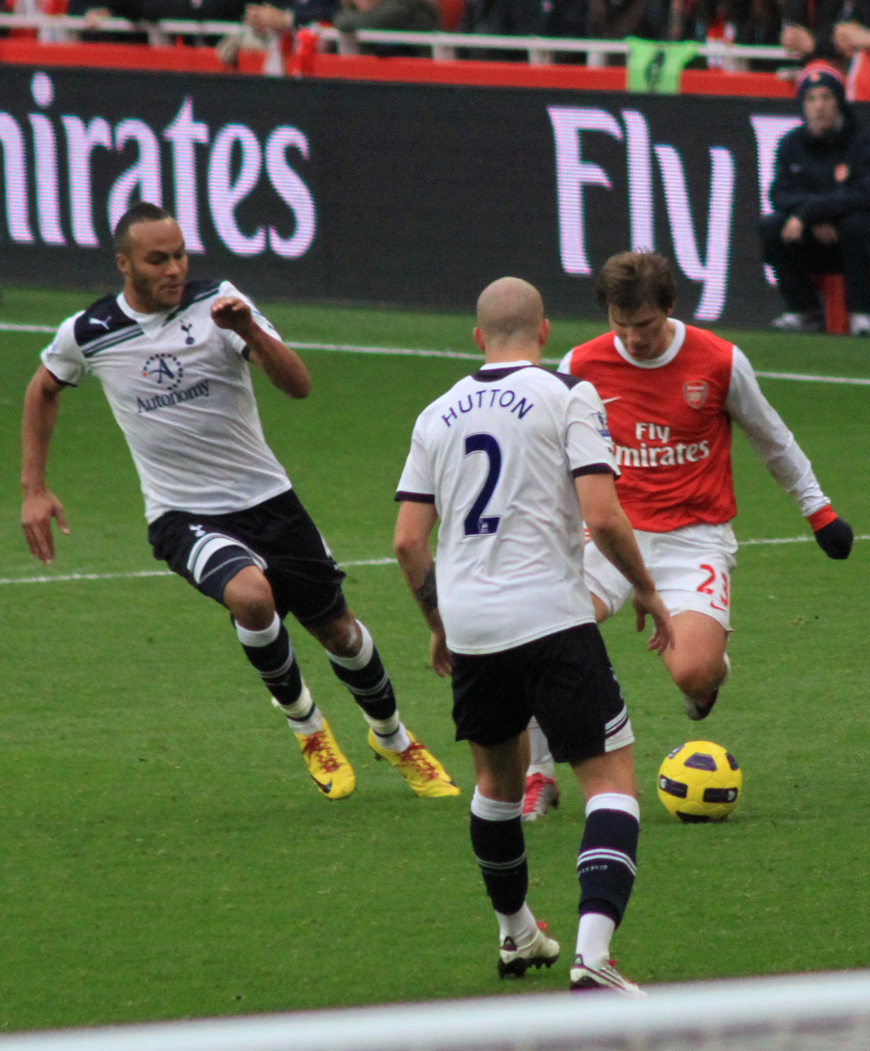 Younes Kaboul (left) and Alan Hutton defend against Andrei Arshavin